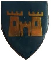 SADF era Heidelburg Commando emblem